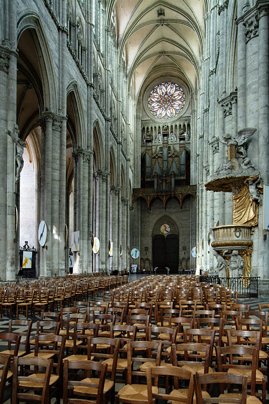 The Nave of Amiens cathedral, looking west